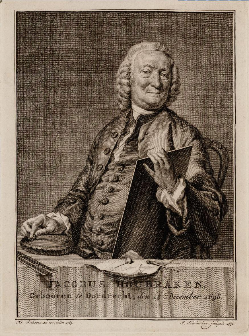 Self-portrait of Amsterdam engraver Jacobus Houbraken dated 1770.